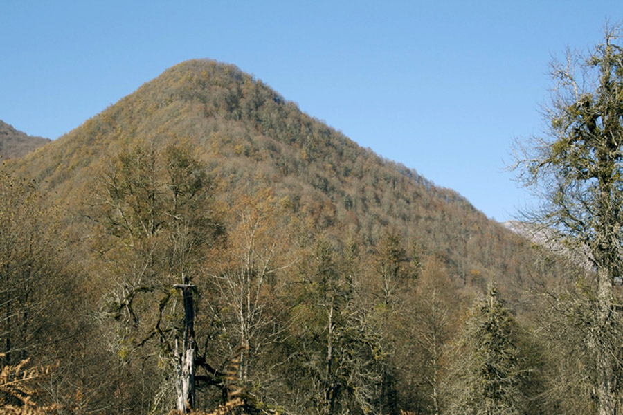 Abkhazia. Mountain Inal-Kuba.